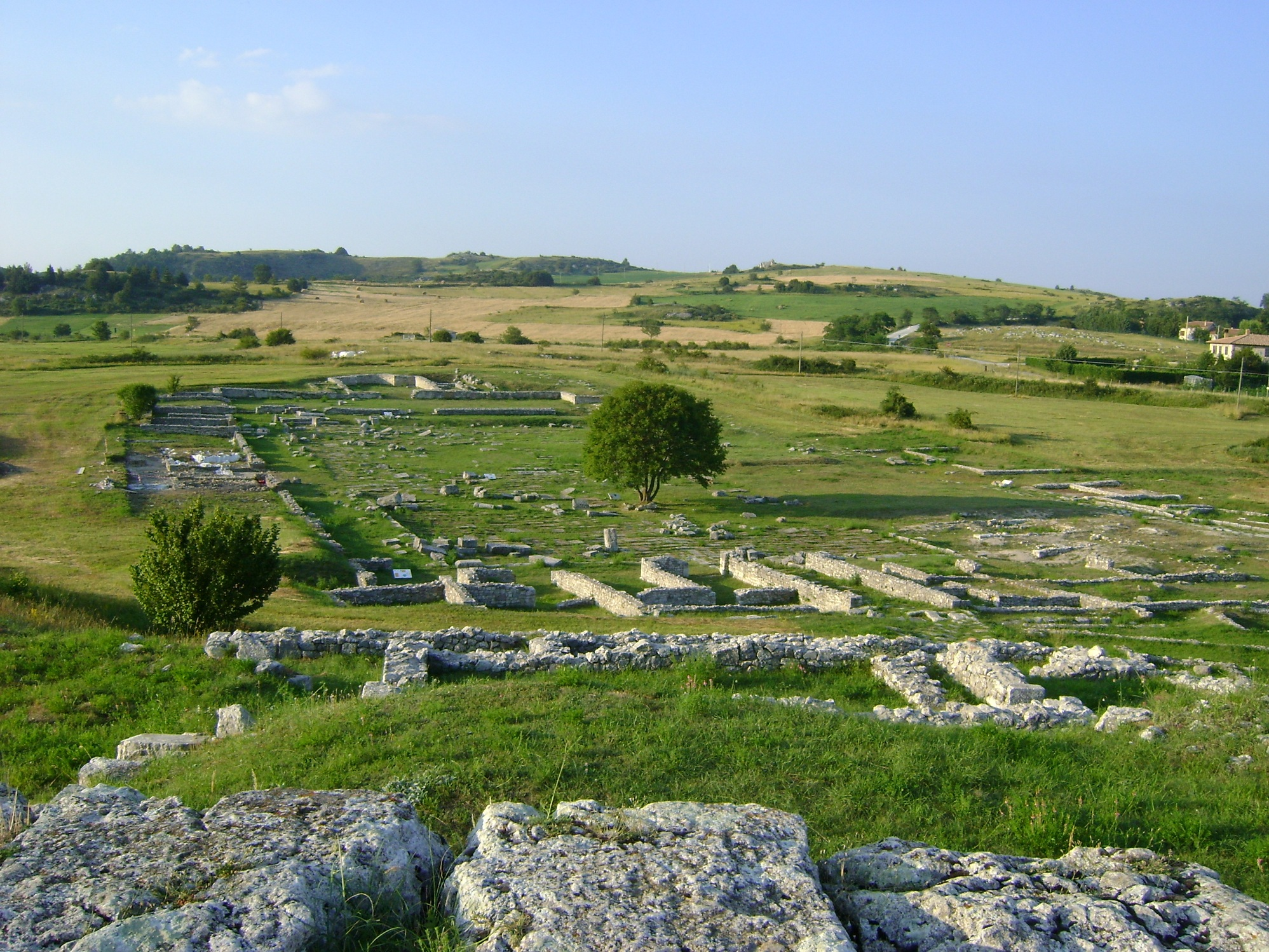 View of the ancient Roman city of Juvanum, Montenerodomo, province of Chieti, Abruzzo